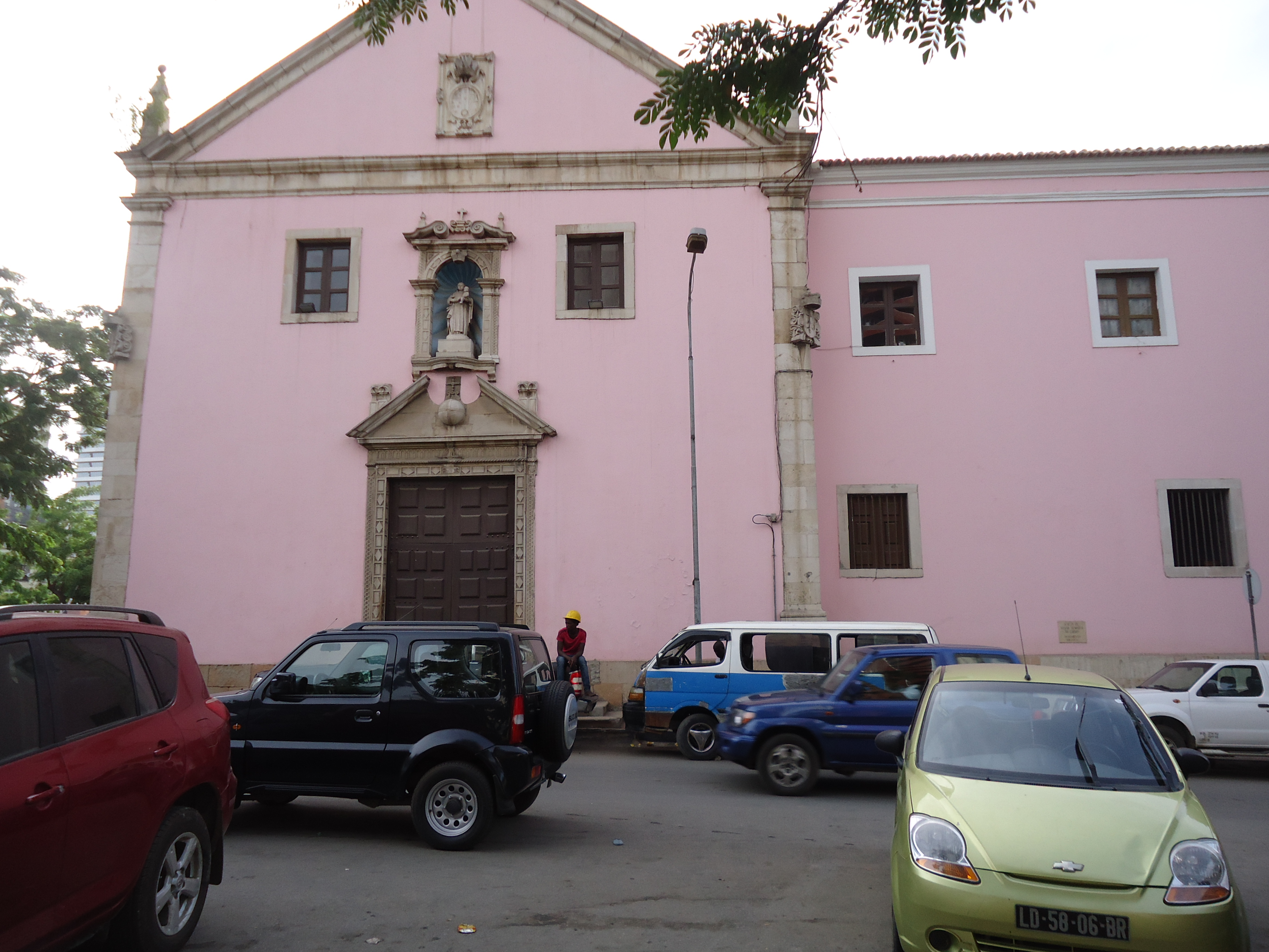 Streets and buildings of Luanda. Photo by Fabio Vanin, Luanda, 2013.